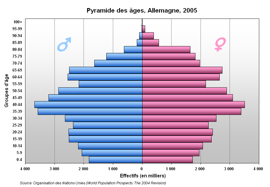 Germany Population pyramid, 2005